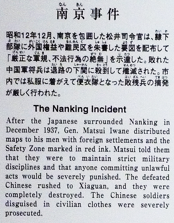 The Nanking Incident